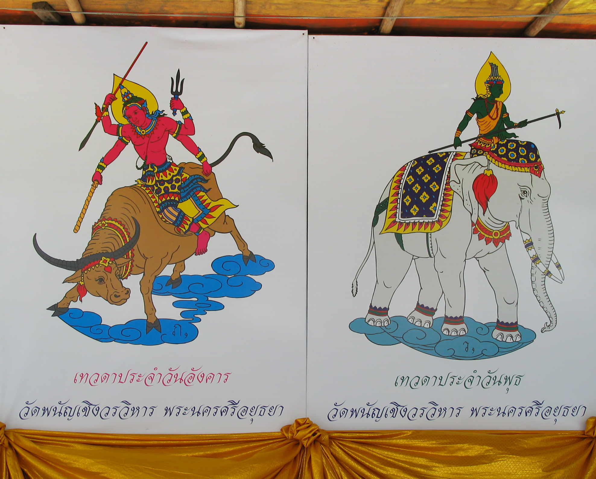 Personification of weekdays in Thailand: Tuesday and Wednesday